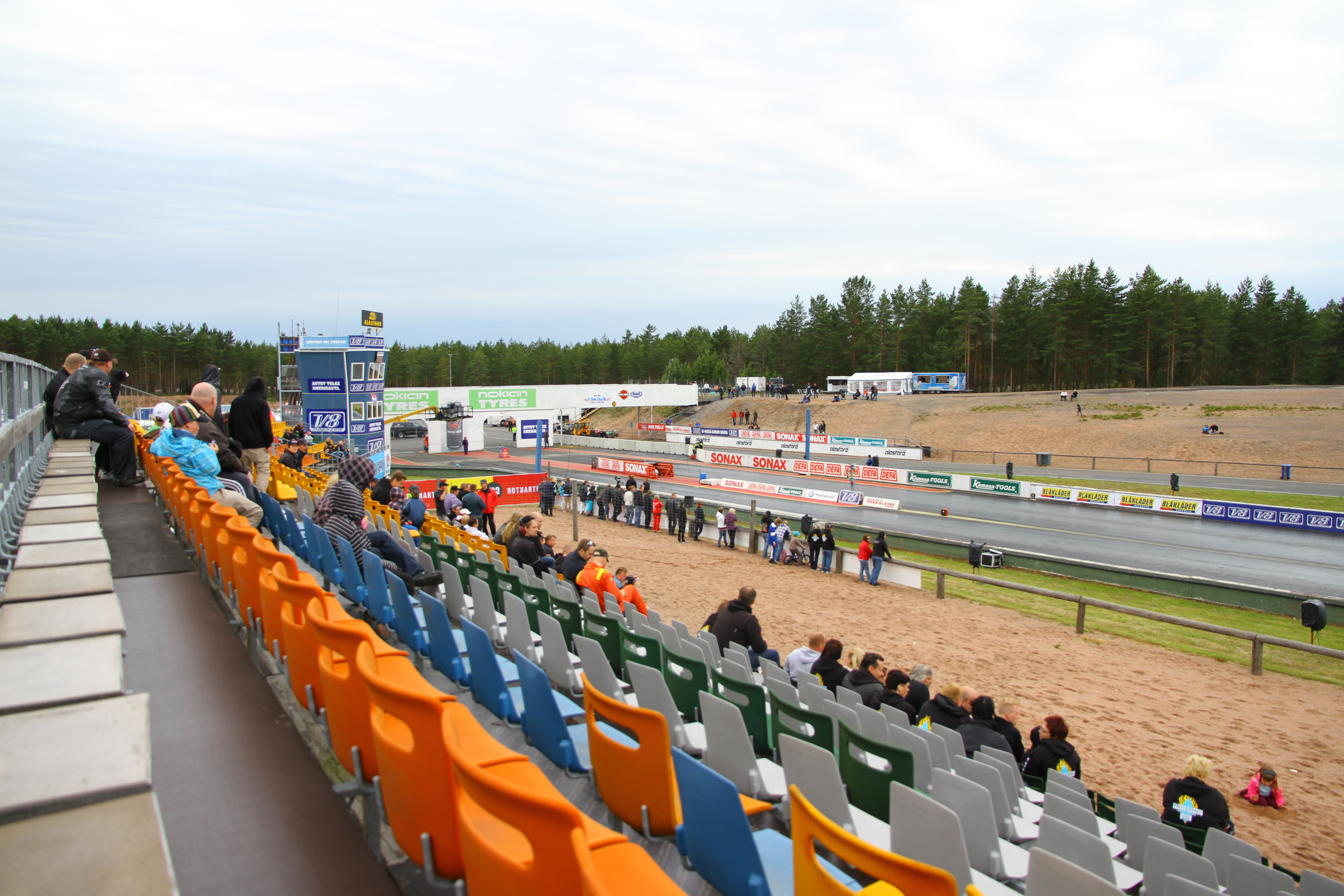 FHRA Kamasa Drag Race Week at Alastaro Circuit, Finland.